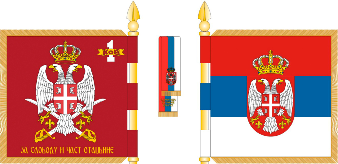 Land Forces brigade flag. Српски (ћирилица): копнена војска бригада застава. Srpski (latinica): Kopnena vojska brigada zastava.